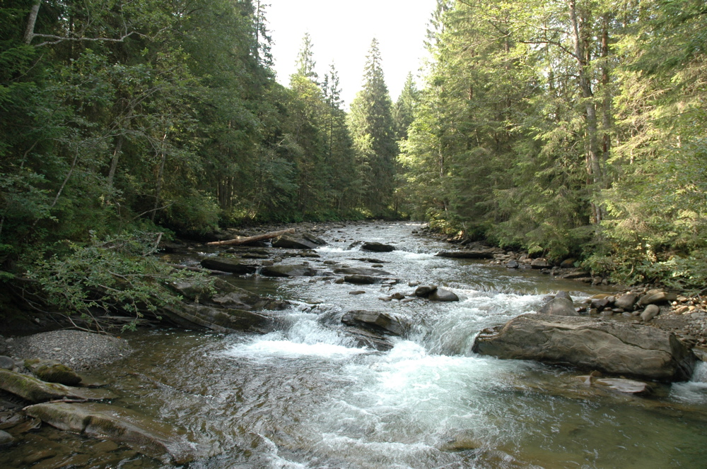 The Prut river near the Hoverla mountain (Ivano-Frankivsk region, Ukraine).